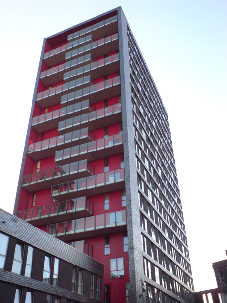 Student housing 'De Bisschoppen' in Utrecht.